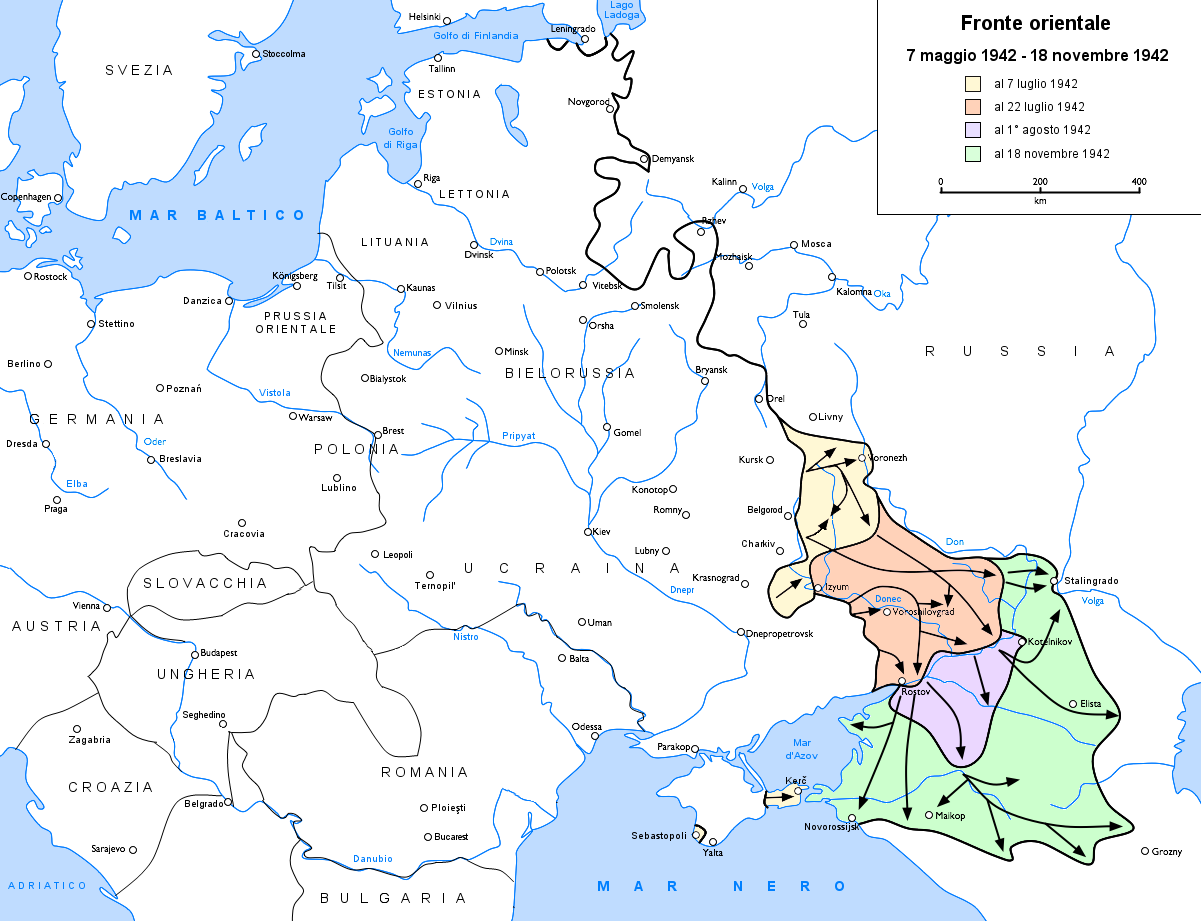 Eastern Front (WWII), 1942-05-07 to 1942-11-18